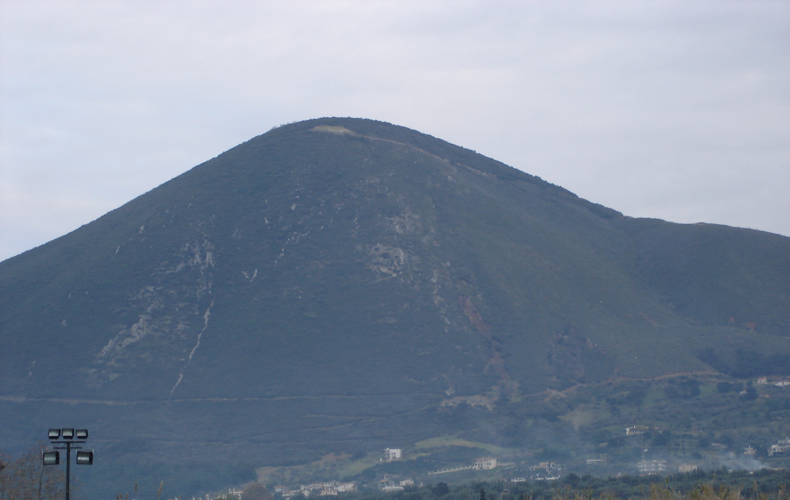 Omplos moudain Greece